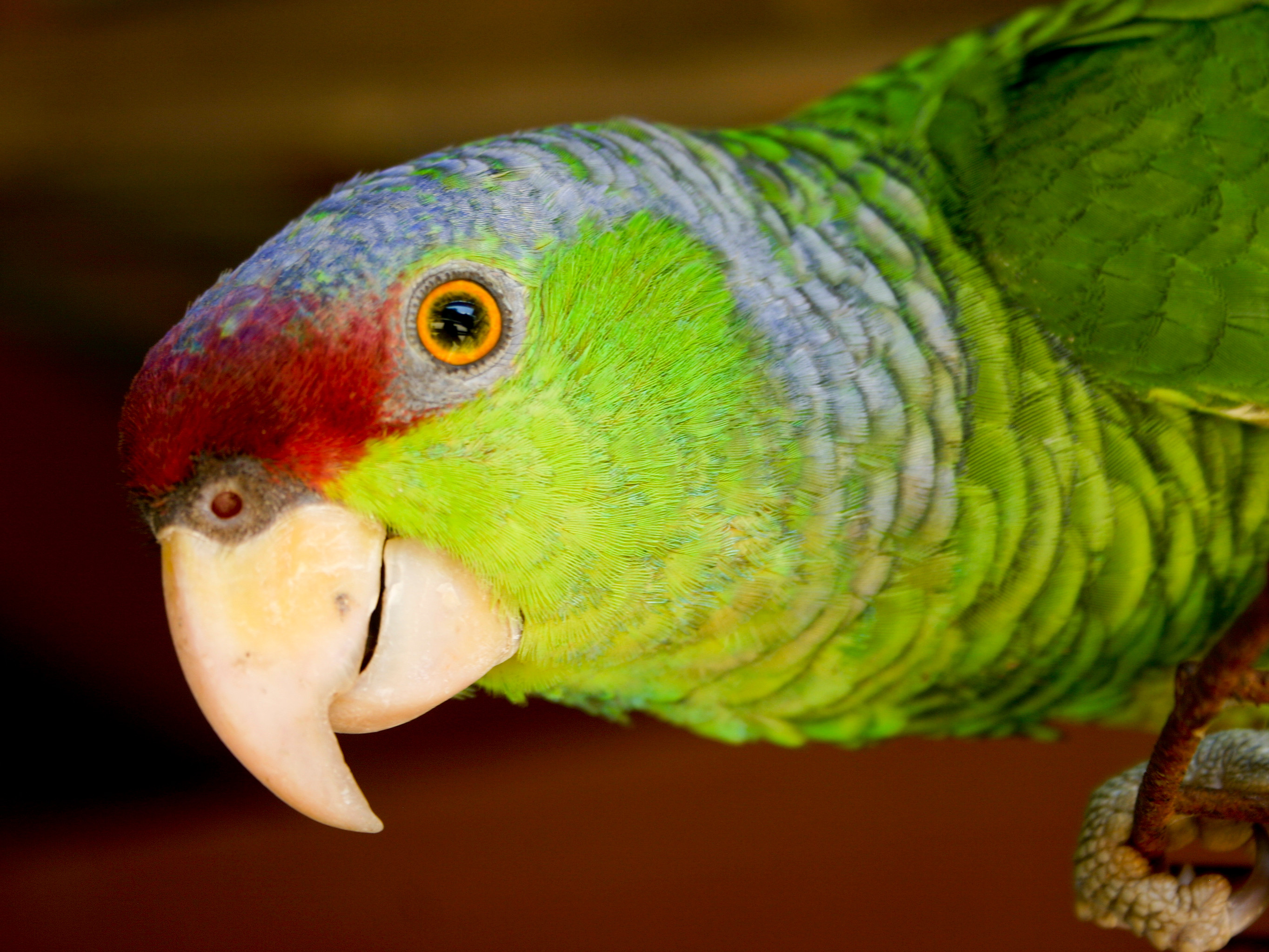 Lilac-crowned Amazon at Parque Municipal Summit, Panama. Photograph shows upper body.